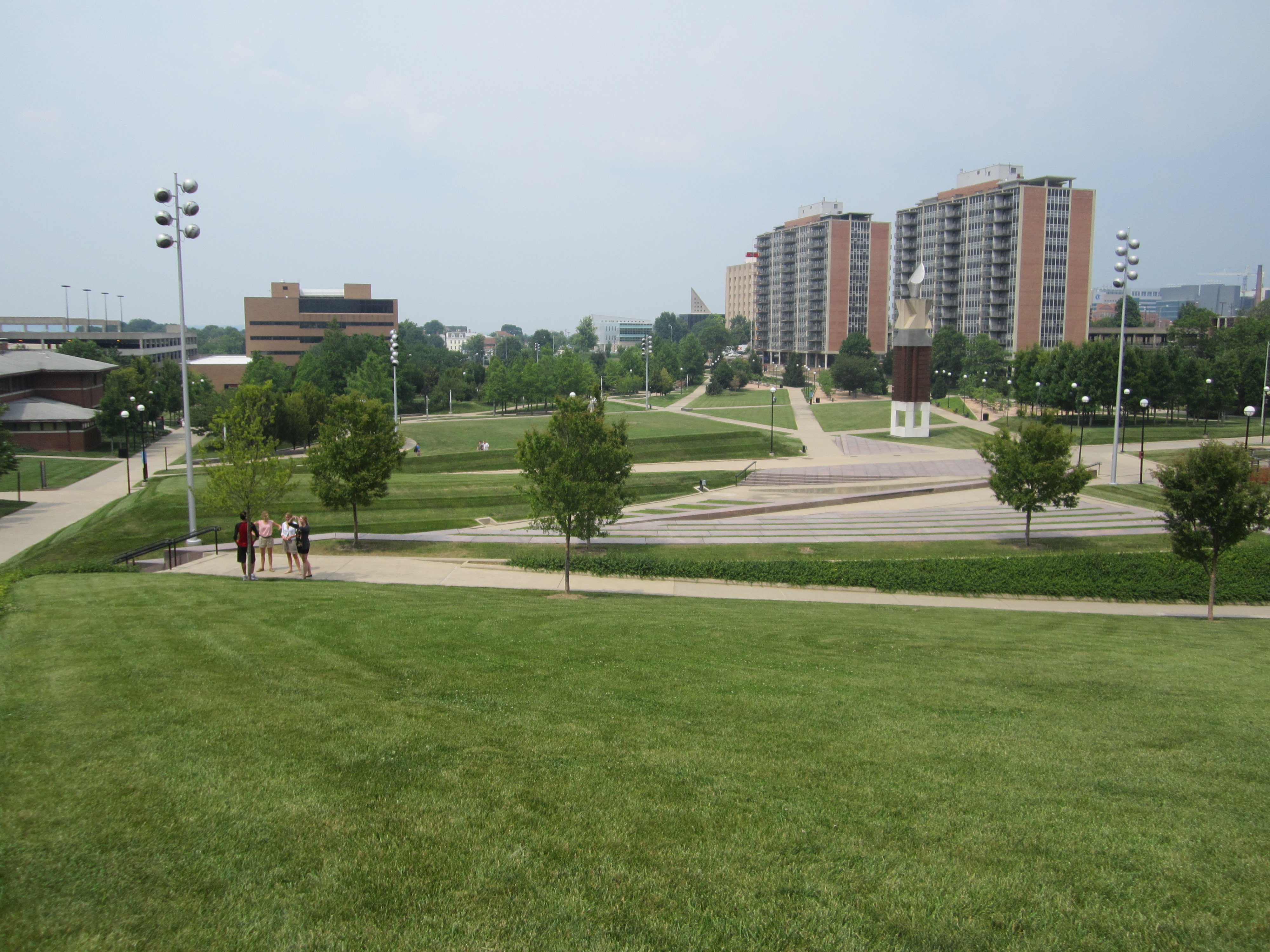 Campus Green at the University of Cincinnati.